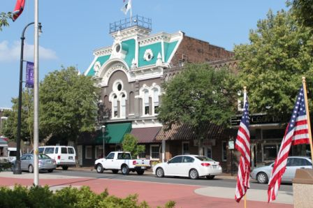 Craigmiles Hall in Cleveland, Tennessee, built in 1878, is one of the most historic and ornate buildings in Tennessee. The building was used as an opera house for several decades and renovated in 1993 by local businessman Allan Jones, and is owned by Jones Properties.